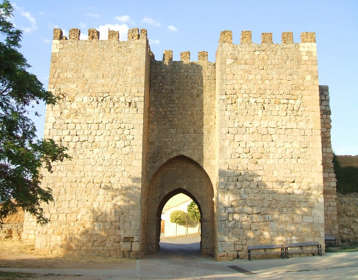 Puerta del Mercado, en Almazán (Soria, España)